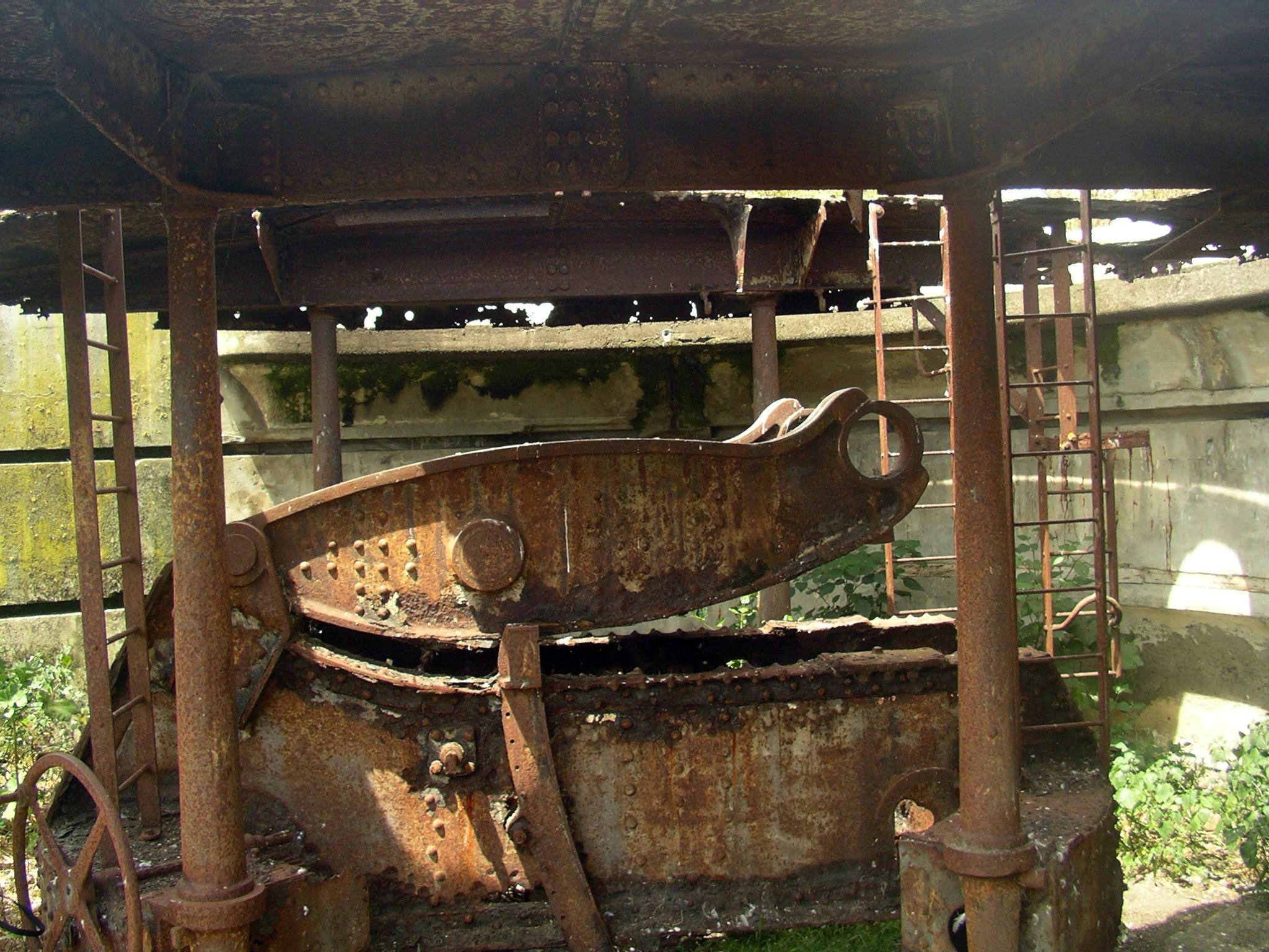 Disappearing gun mount at South Channel Fort, Victoria, Australia. This mounting was for a BL 8 inch Mk VII gun. The gun and mounting are now (2008) restored and on display at Fort Queenscliff.